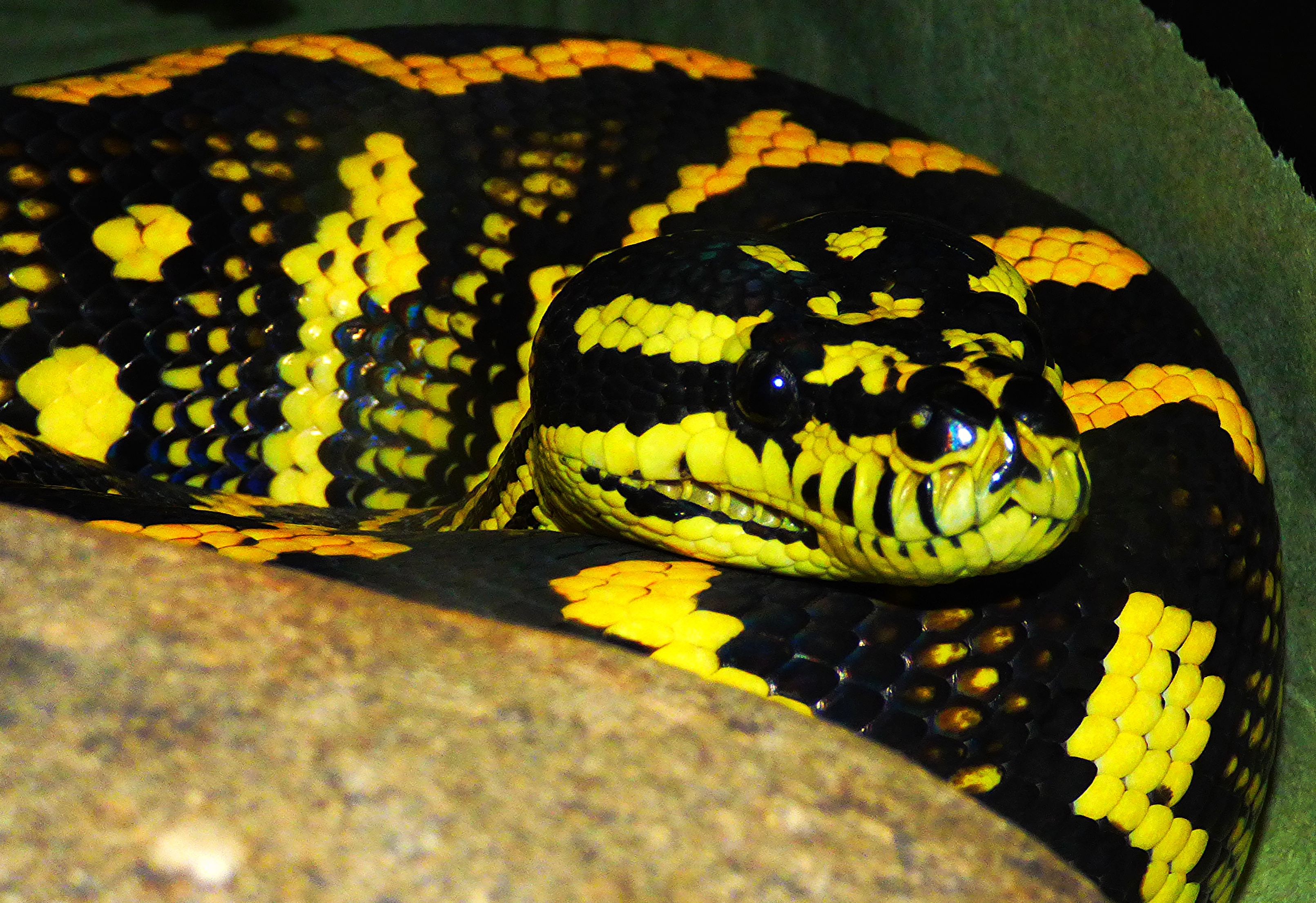 Adult Jungle Carpet Python (Morelia spilota cheynei) animal in my private collection